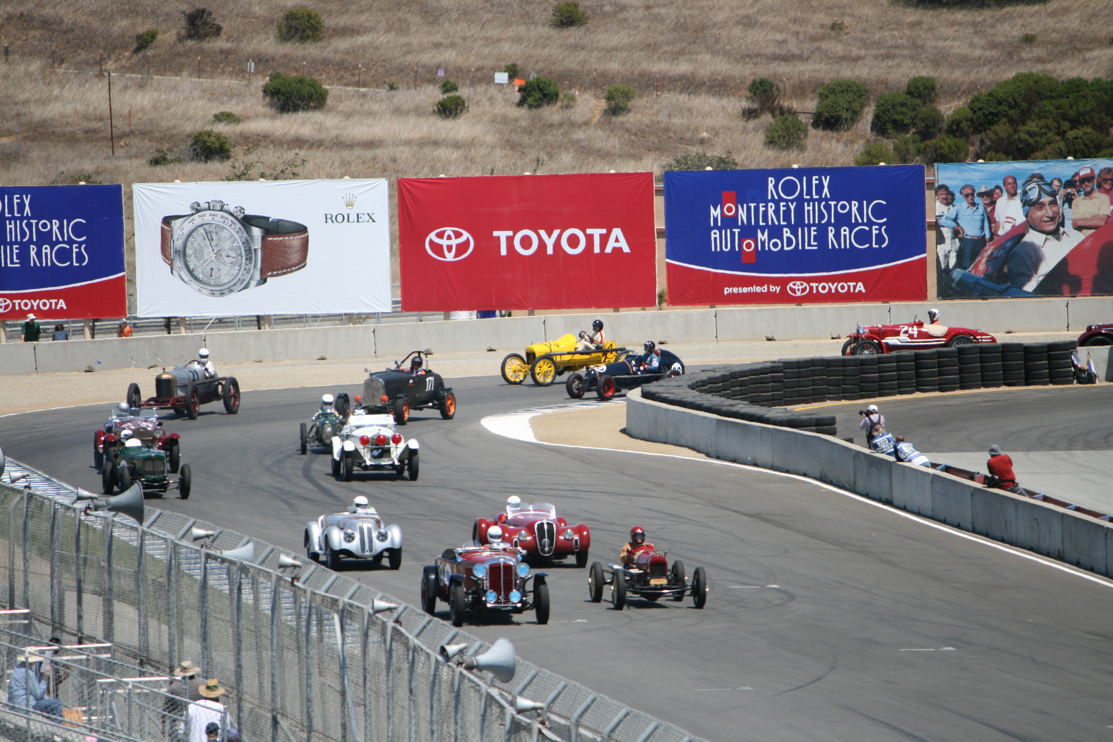 Monterey Historic Automobile Races 2008